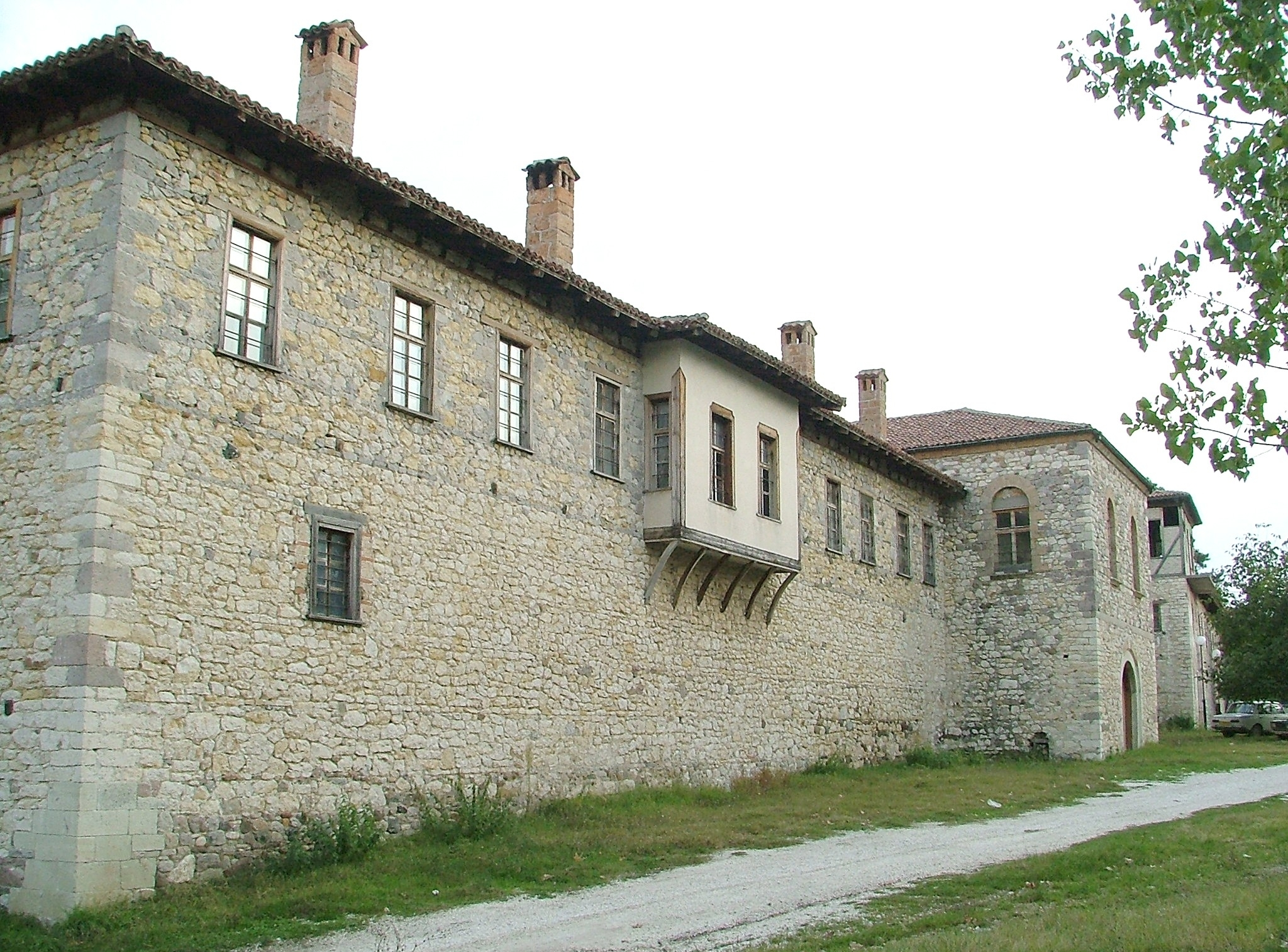 Fortress of the Arapovo Monastery, Bulgaria